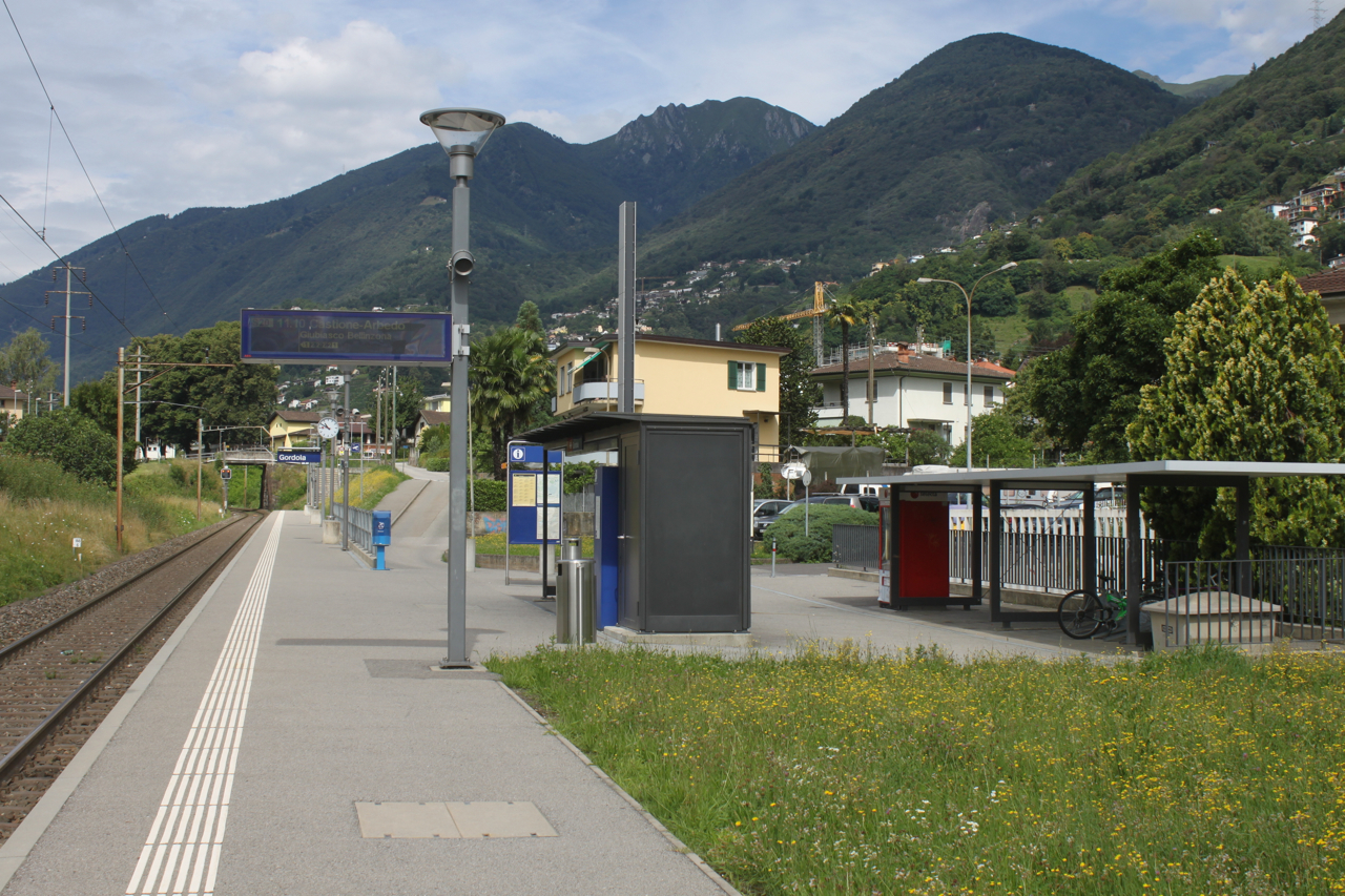 Gordola train station.